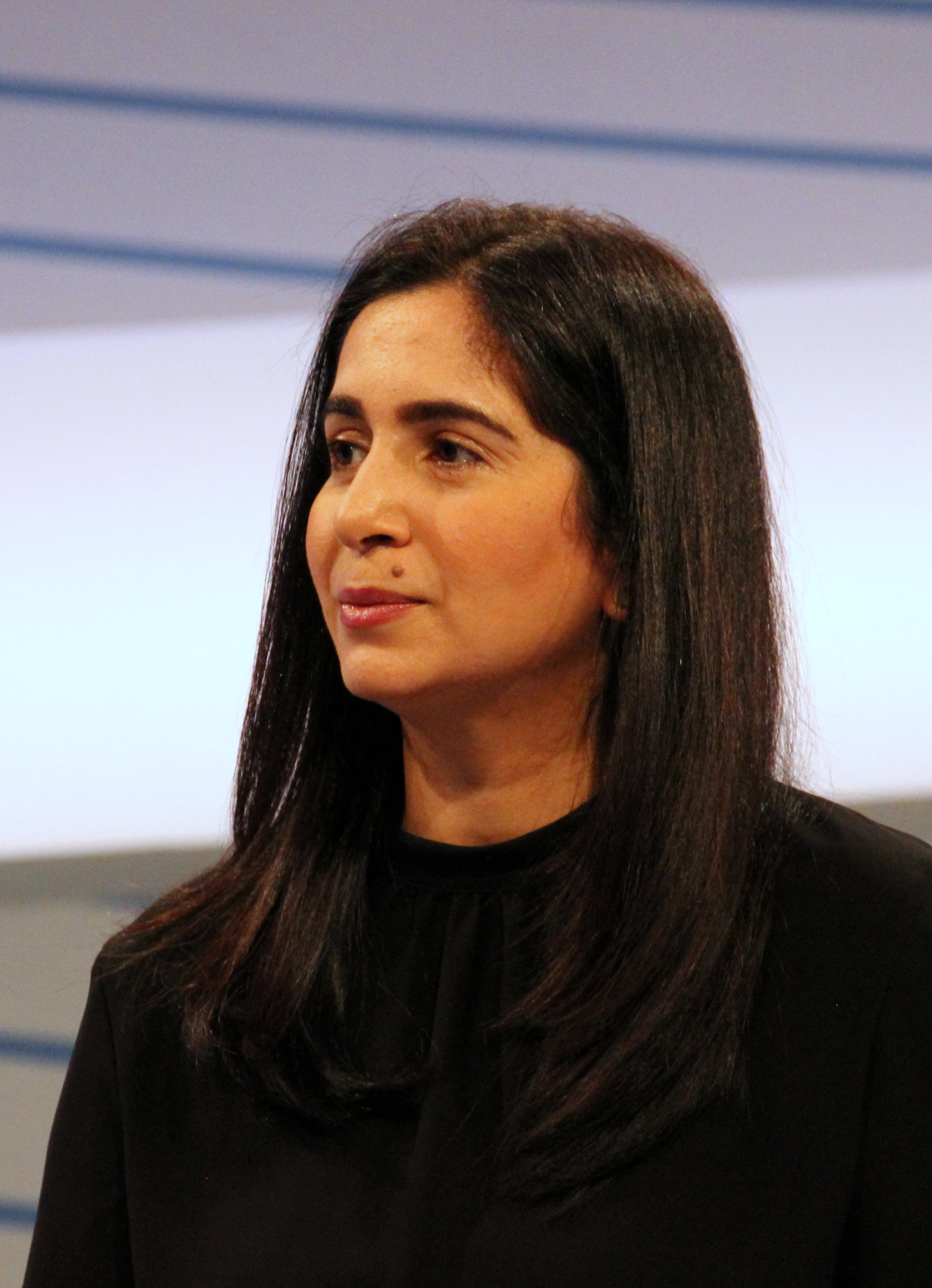 Souad Mekhennet, Frankfurt Book Fair 2017